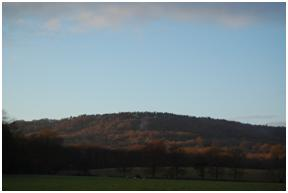 Blackdown, showing the view point, from 2 miles away.